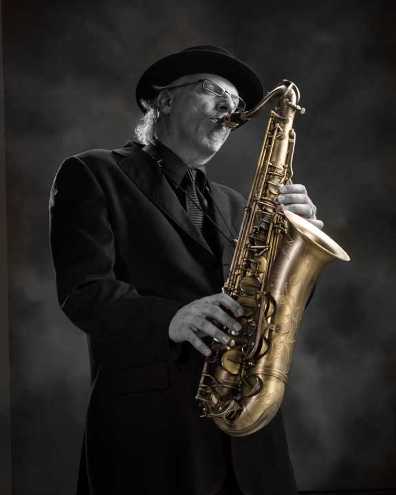 Photographed by uploader . . . copyright released to public domain. Photographer: L.A. Daneman, the LAD AGENCY, 510 2nd Street NW, Albuquerque, NM 87102